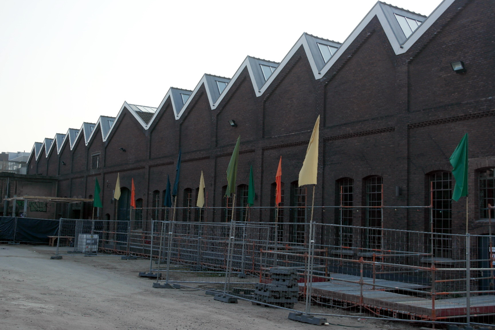 Maastricht, the Netherlands. View of the back of Timmerfabriek, a former warehouse of Sphinx potteries, now being redeveloped as a cultural venue. The walkway is intended for visitors of pop music venue Muziekgieterij.